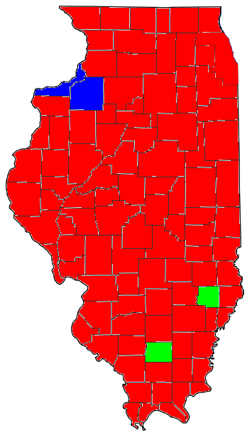 A map of the counties won by each candidate in the Illinois Republican primary.